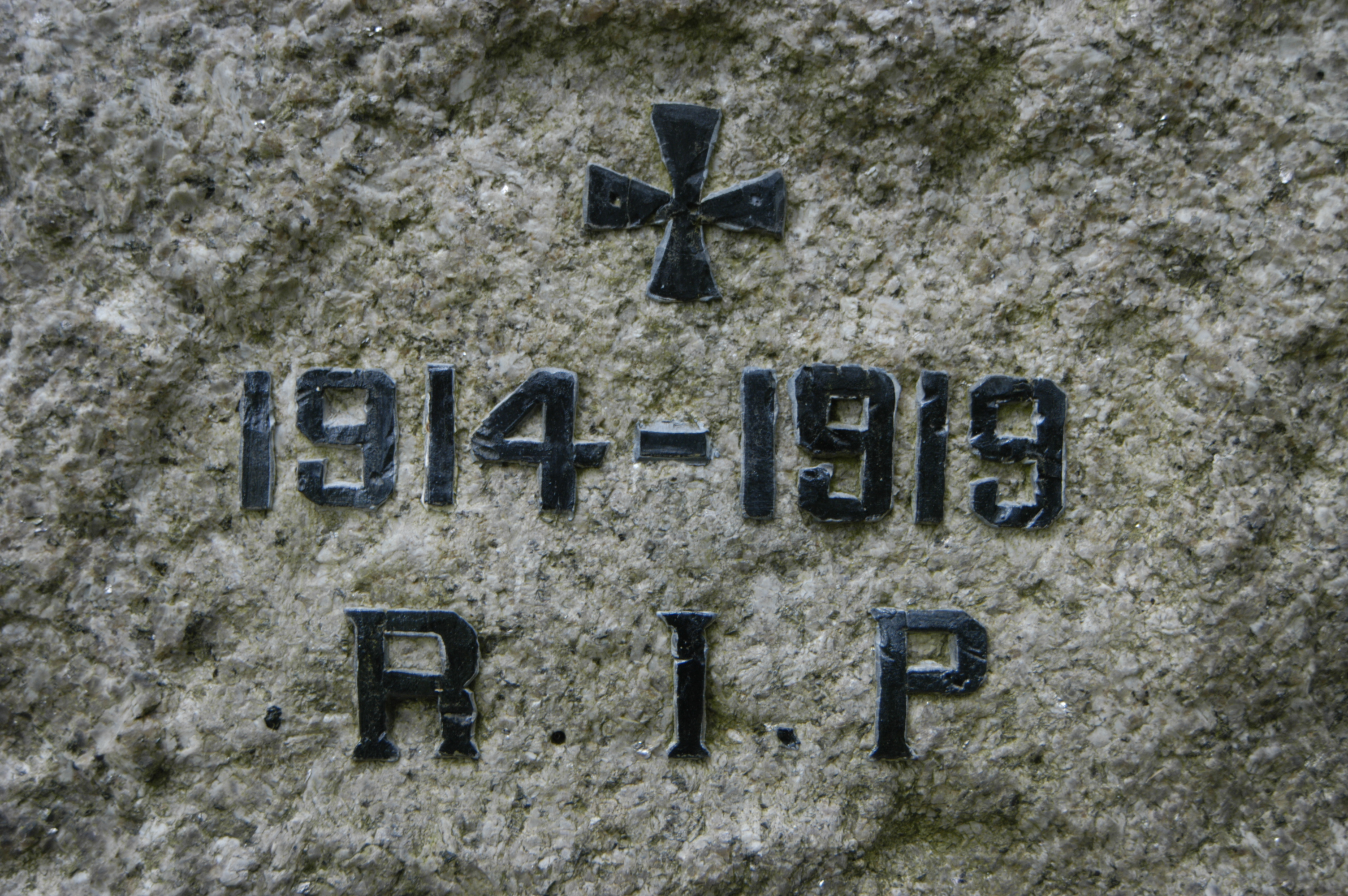 Photo (by me, R. de SalisRodolph (talk) 23:34, 8 September 2014 (UTC)) of part of Ecchinswell's 1914-1919 War Memorial.